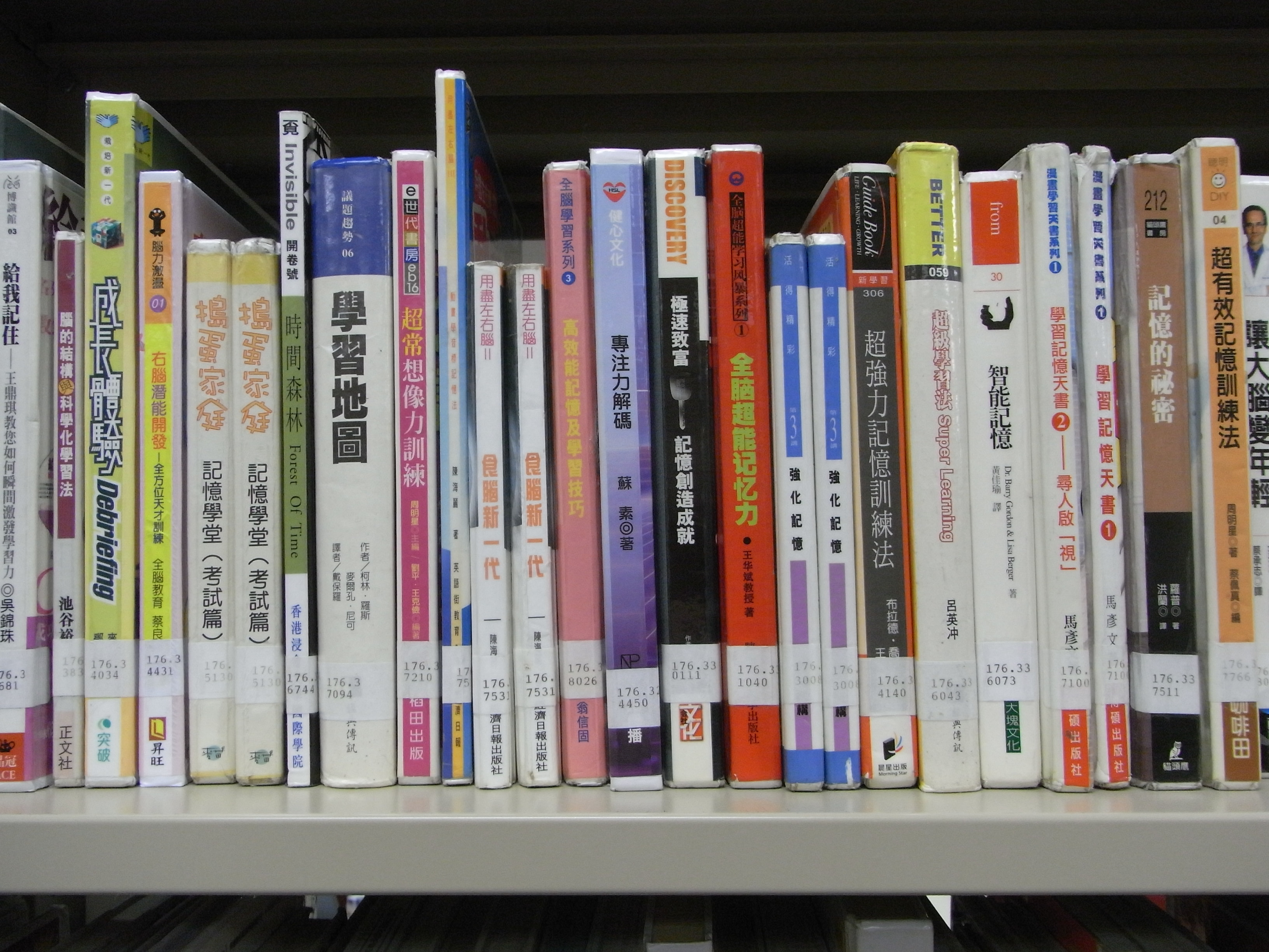 Chinese book spines